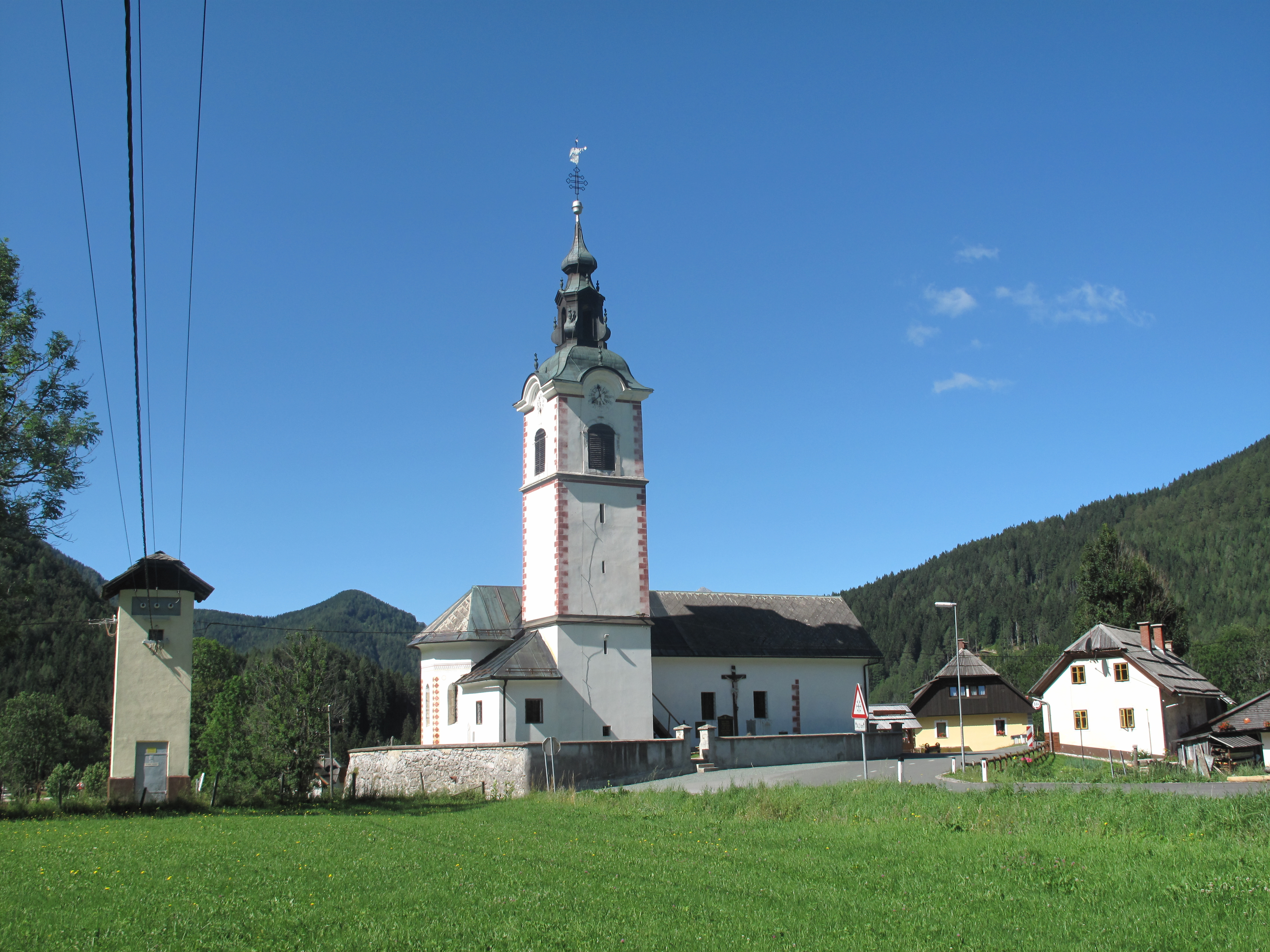 Zgornje Jezersko, Church of St. Andrew